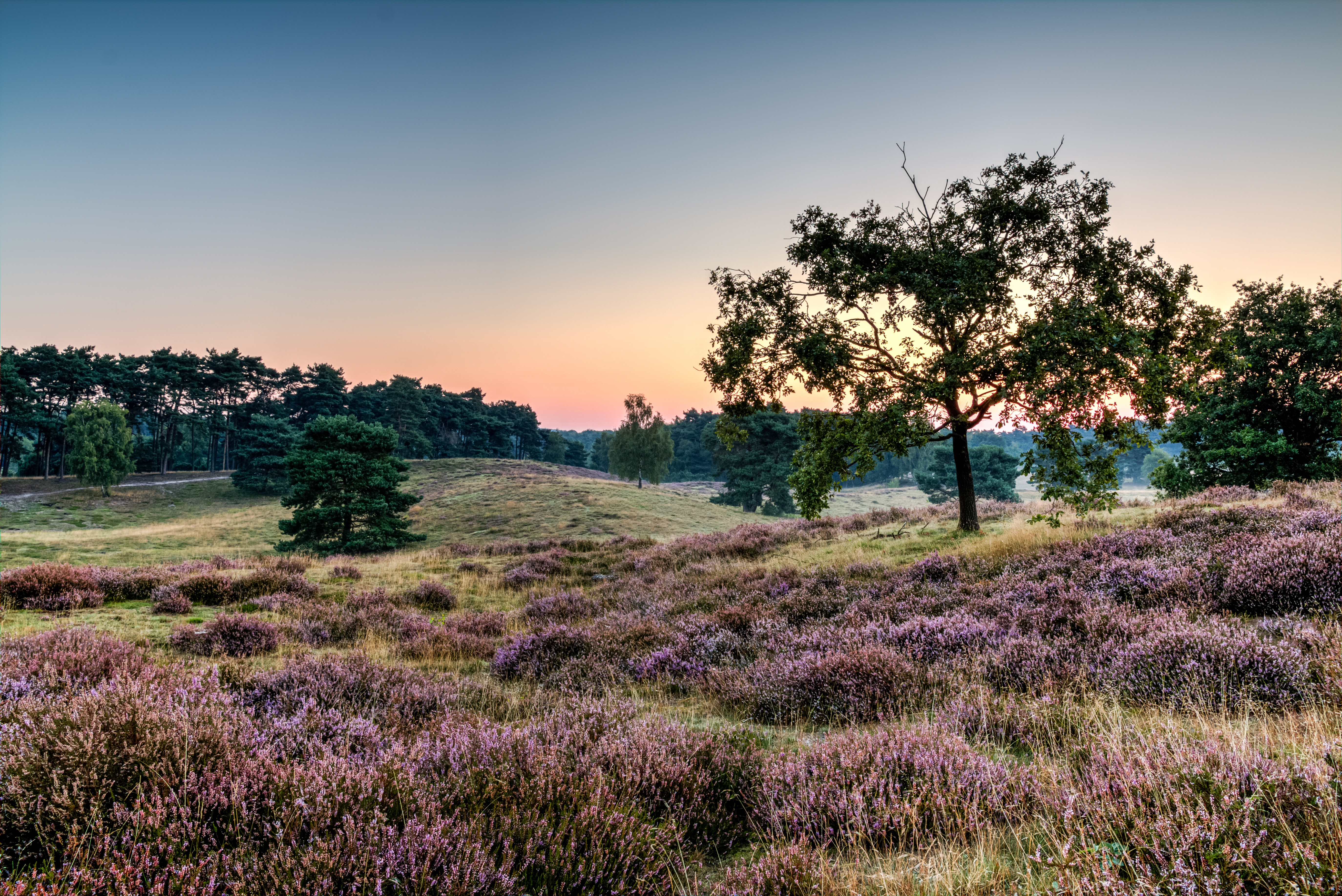 Nature reserve “Westruper Heide” at the flowering of the heath, Haltern am See, North Rhine-Westphalia, Germany